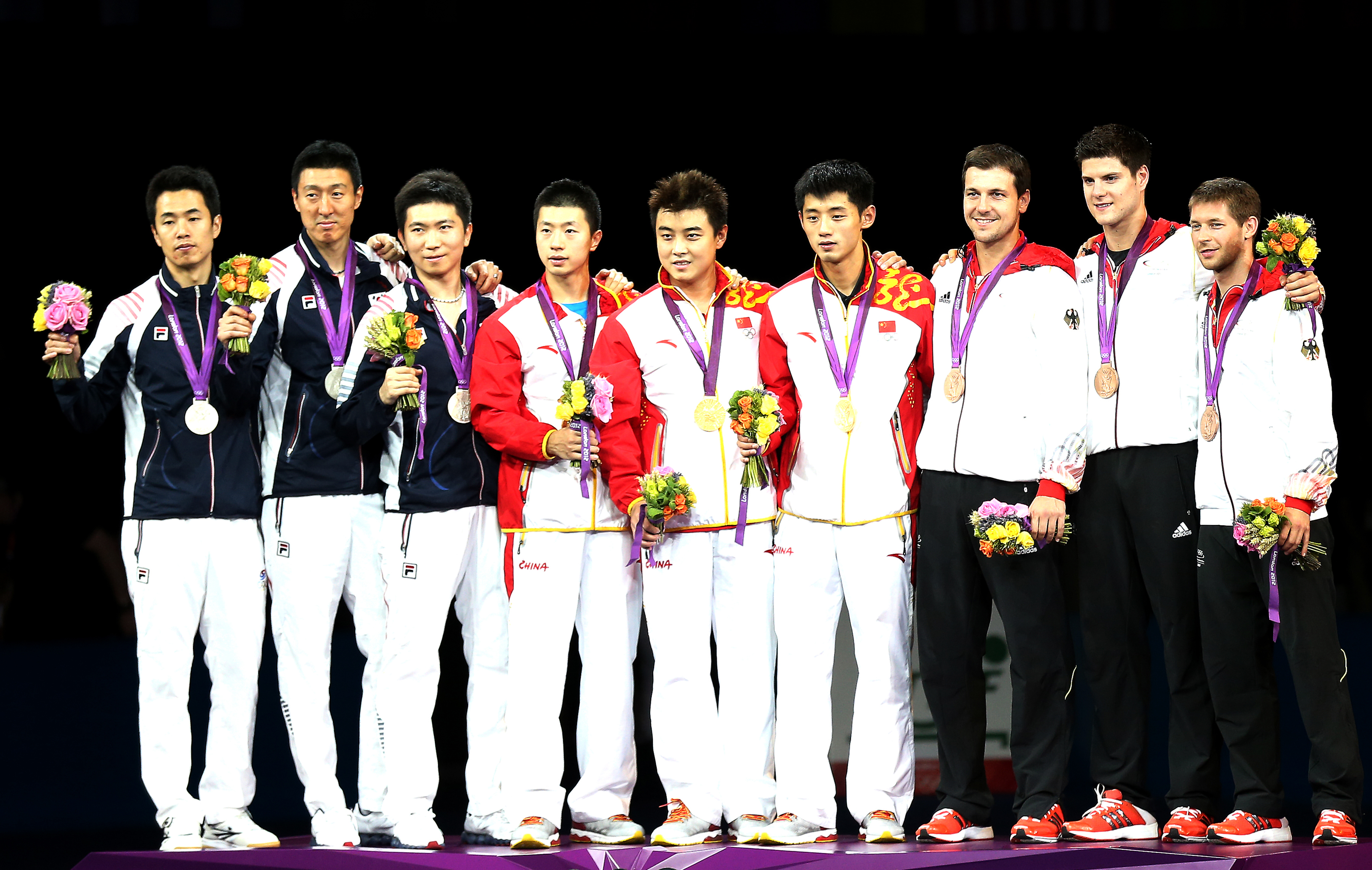 2012 London Olympic Games Men's team table tennis Korea team won silver medal. 2012.08.09. Photo by Korean Olympic Committee Ministry of Culture, Sports and Tourism Korean Culture and Information Service 2012 런던 올림픽 남자 탁구 남자단체전 (주세혁, 오상은, 유승민) 은메달 획득 사진제공 - 대한체육회 문화체육관광부 해외문화홍보원